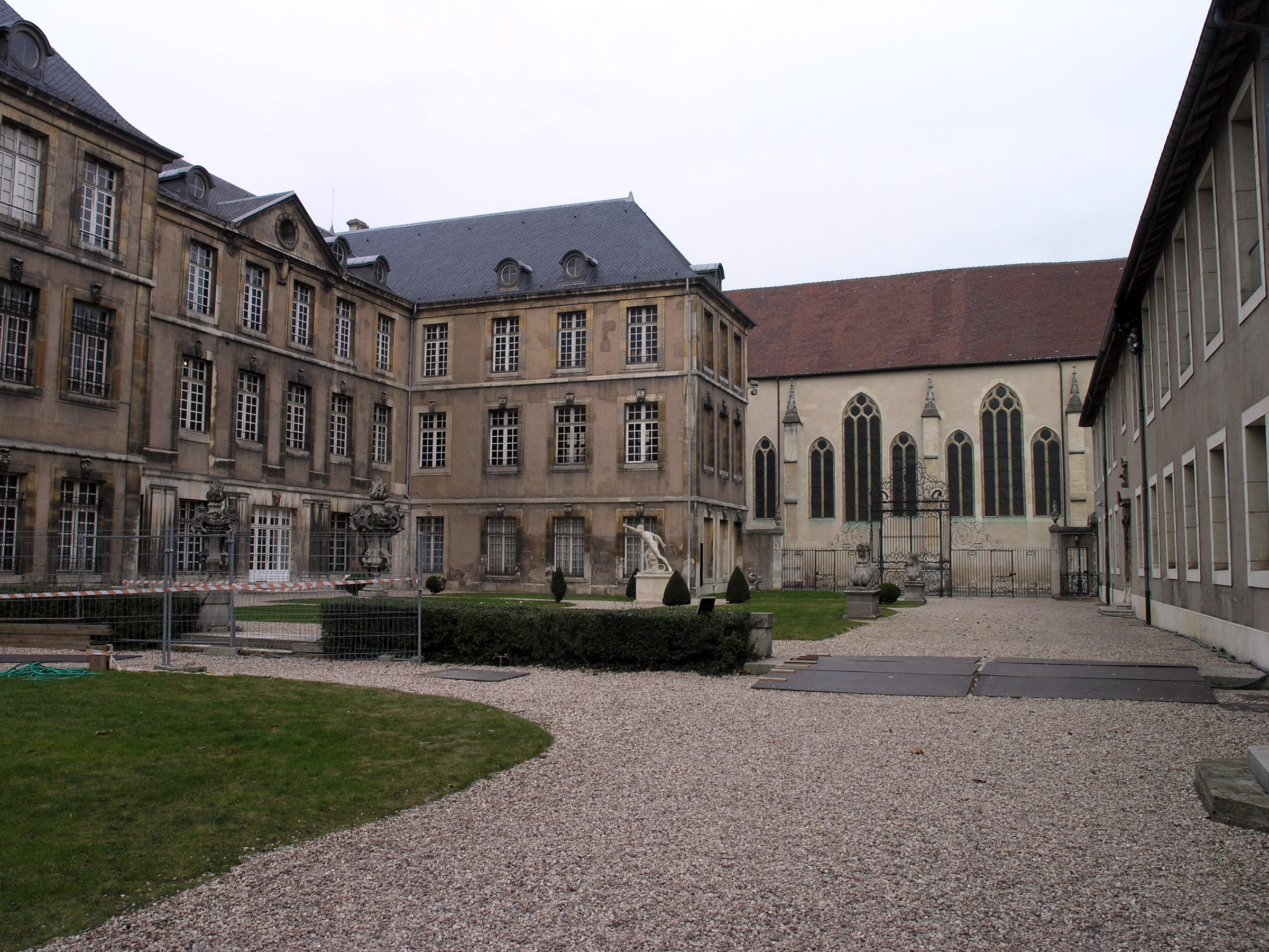 Courtyard of the Palais ducal (Musée lorrain) in Nancy, France.